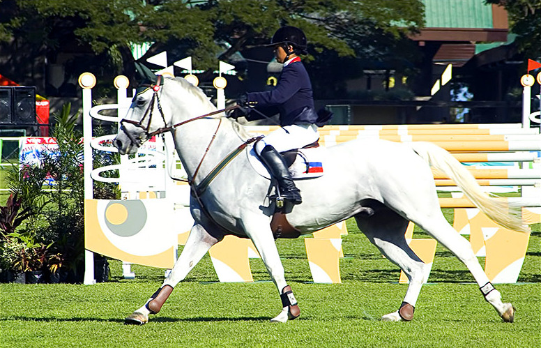 Equestrienne Joker Arroyo and her horse "Without A Doubt" competing at the showjumping event at the 2005 Southeast Asian Games